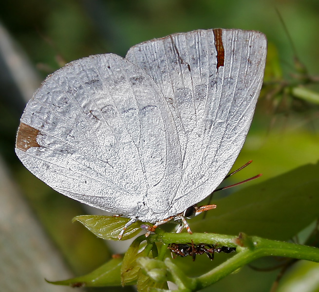 Indian Sunbeam Curetis thetis in Narsapur, Andhra Pradesh, India.